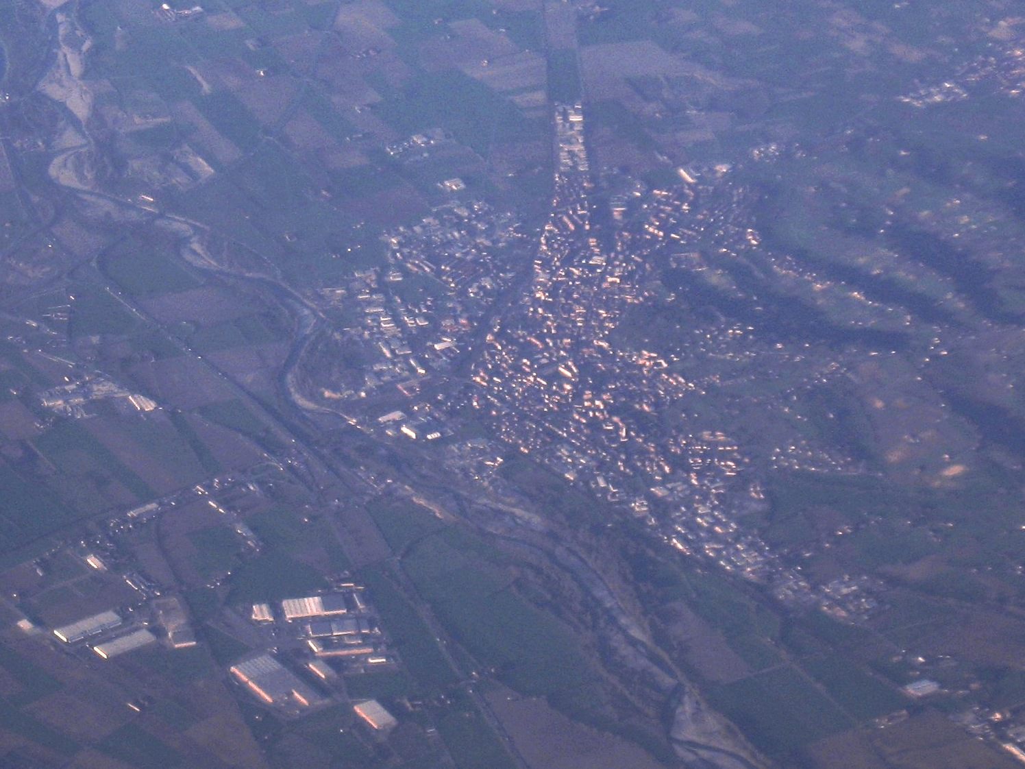 Tortona